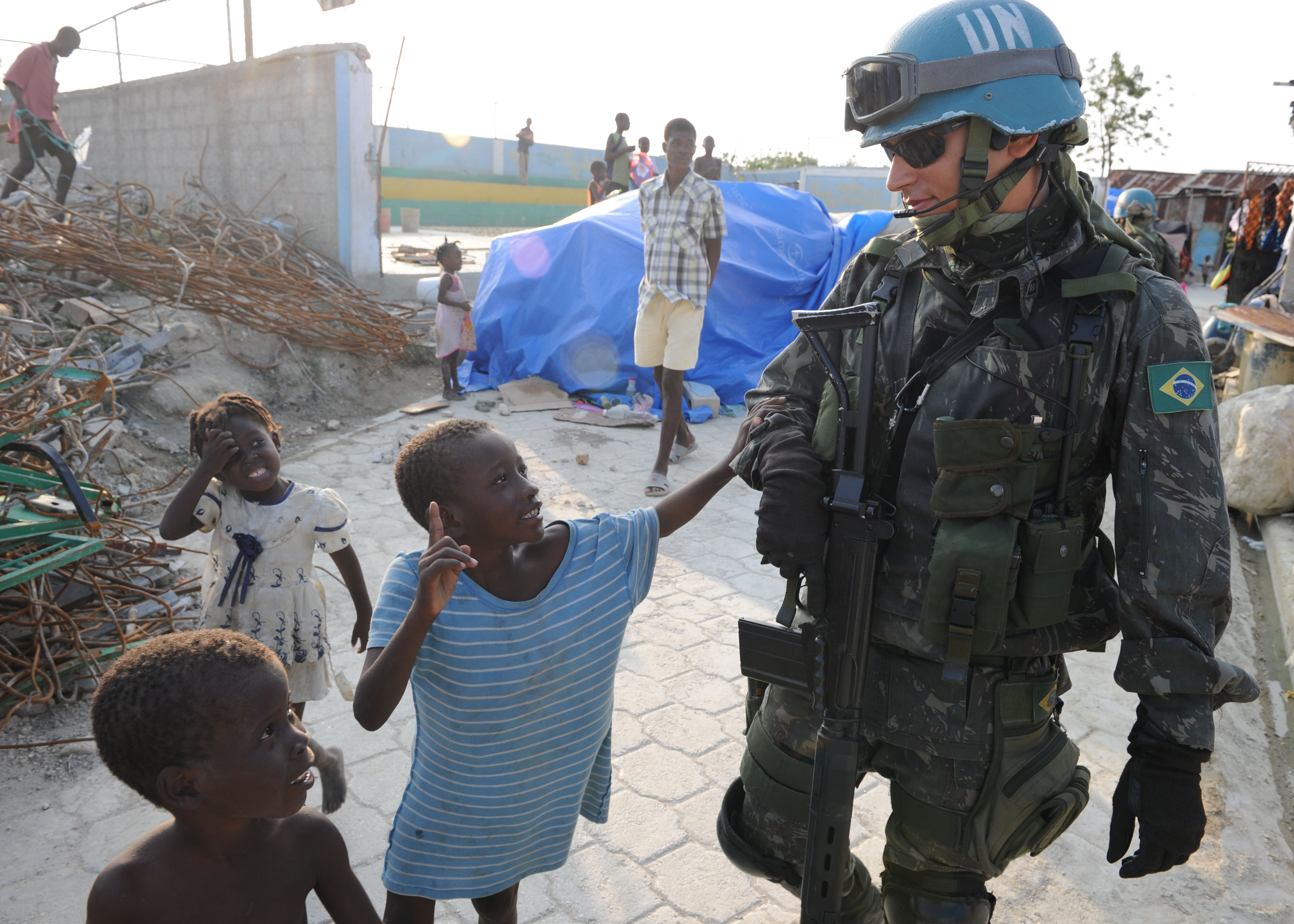 PORT-AU-PRINCE, Haiti (March 16, 2010) A Brazilian U.N. peacekeeper walks with Haitian children during a patrol in Cite Soleil, a section of Port-au-Prince. Several U.S. and international military and non-governmental agencies are conducting humanitarian and disaster relief operations as part of Operation Unified Response after a 7.0-magnitude earthquake caused severe damage in and around Port-au-Prince, Haiti Jan. 12. (U.S. Navy photo by Mass Communication Specialist 1st Class David A. Frech/Released)